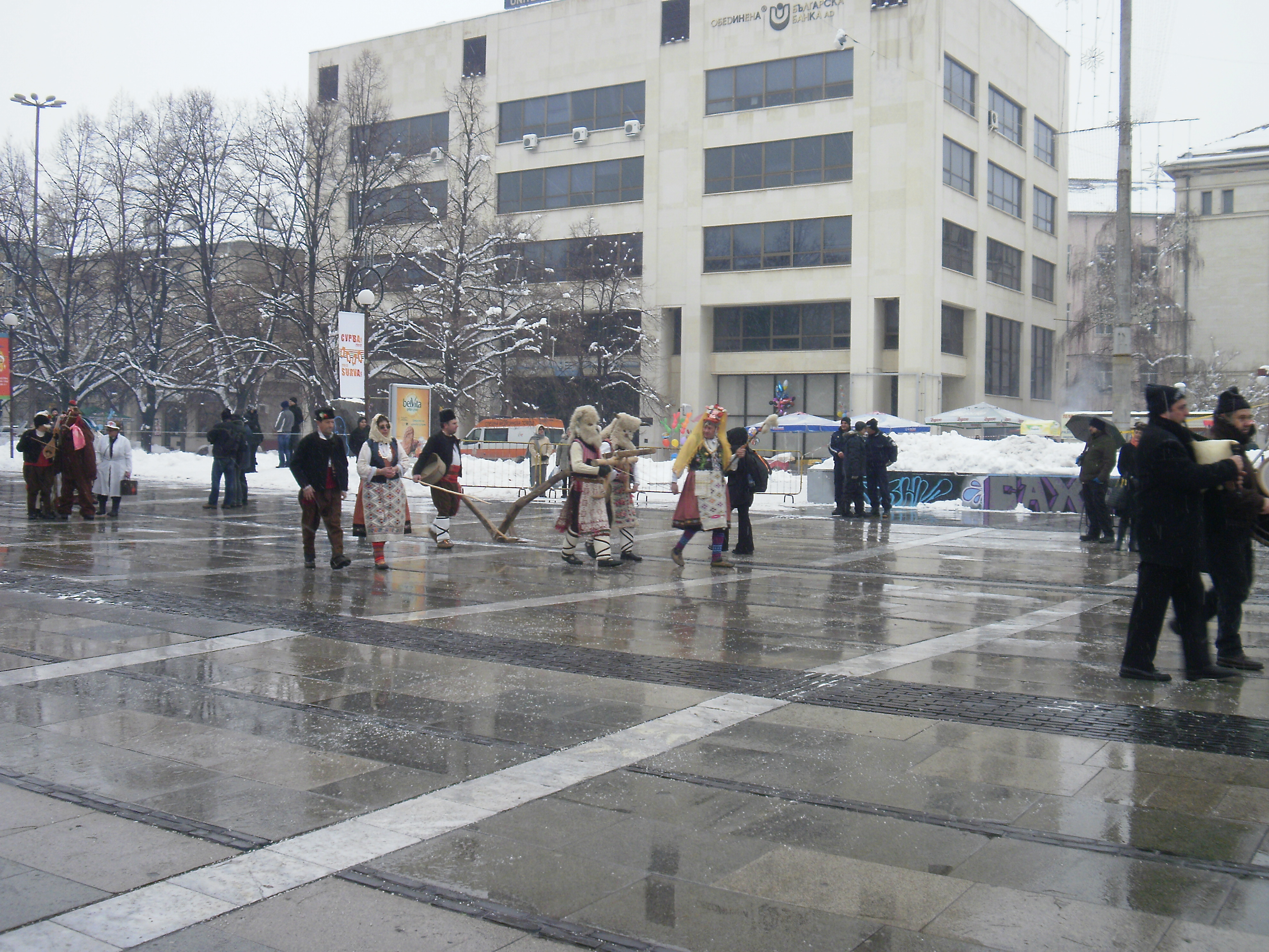 Kukeri from Kabile - XXI International festival of masquerade games "Surva", Pernik 2012.